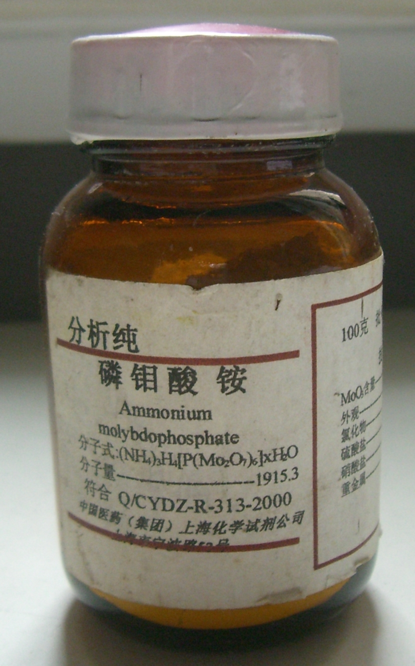 Ammonium molybdophosphate